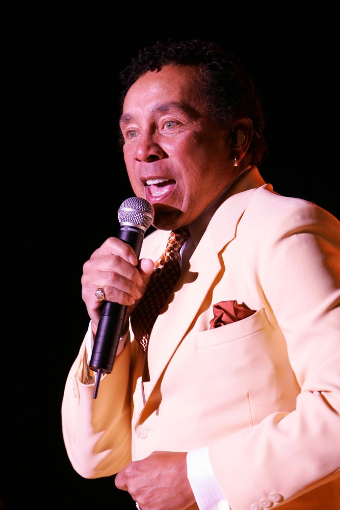 Smokey Robinson in concert at the Chumash Casino Resort in Santa Ynez, California, on August 17, 2006.